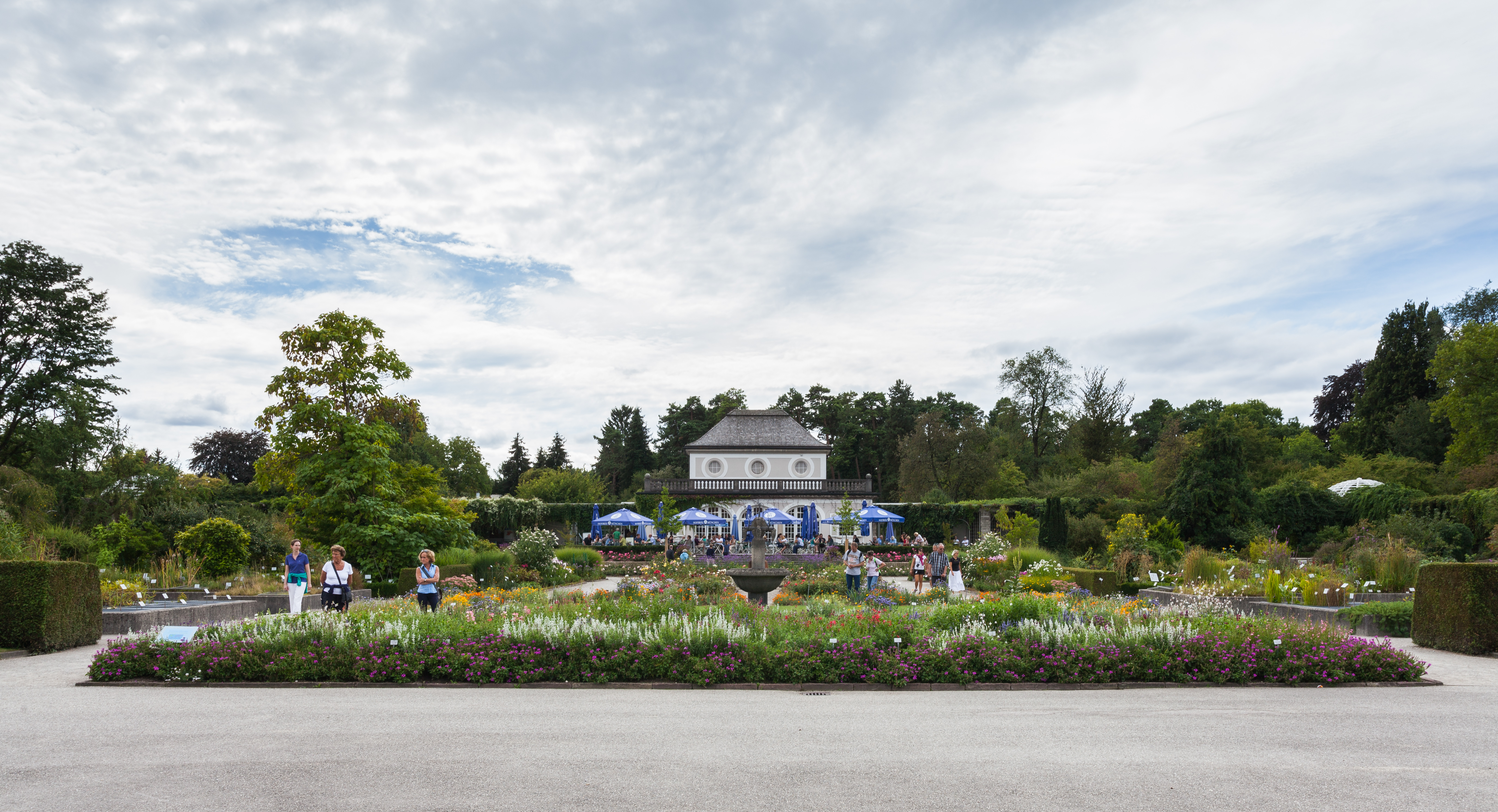 Café, Botanical Garden, Munich, Germany